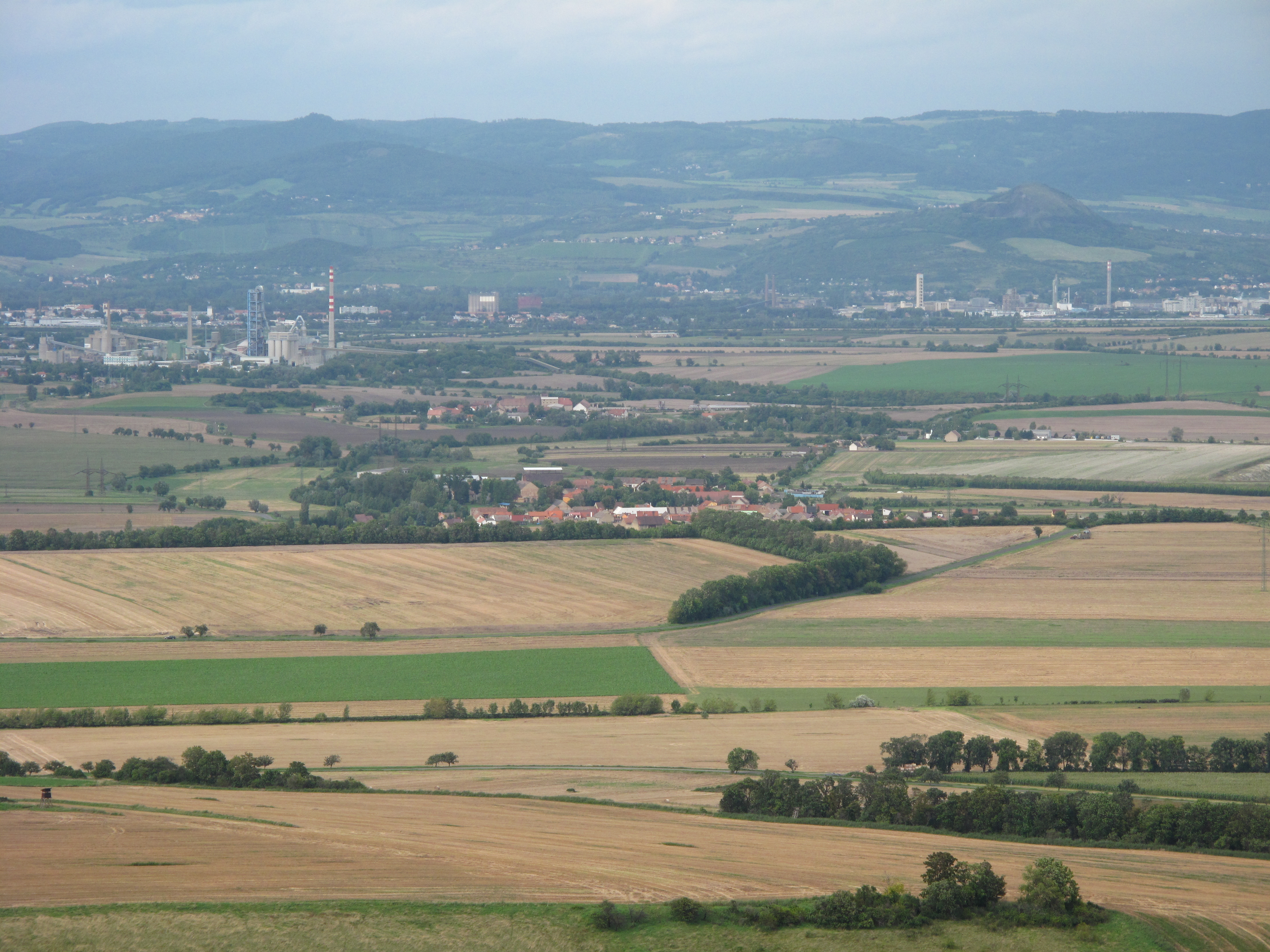 Želechovice village and Čížkovice village as seen from Hazmburk Castle (ruin), Litoměřice District, Czech Republic.